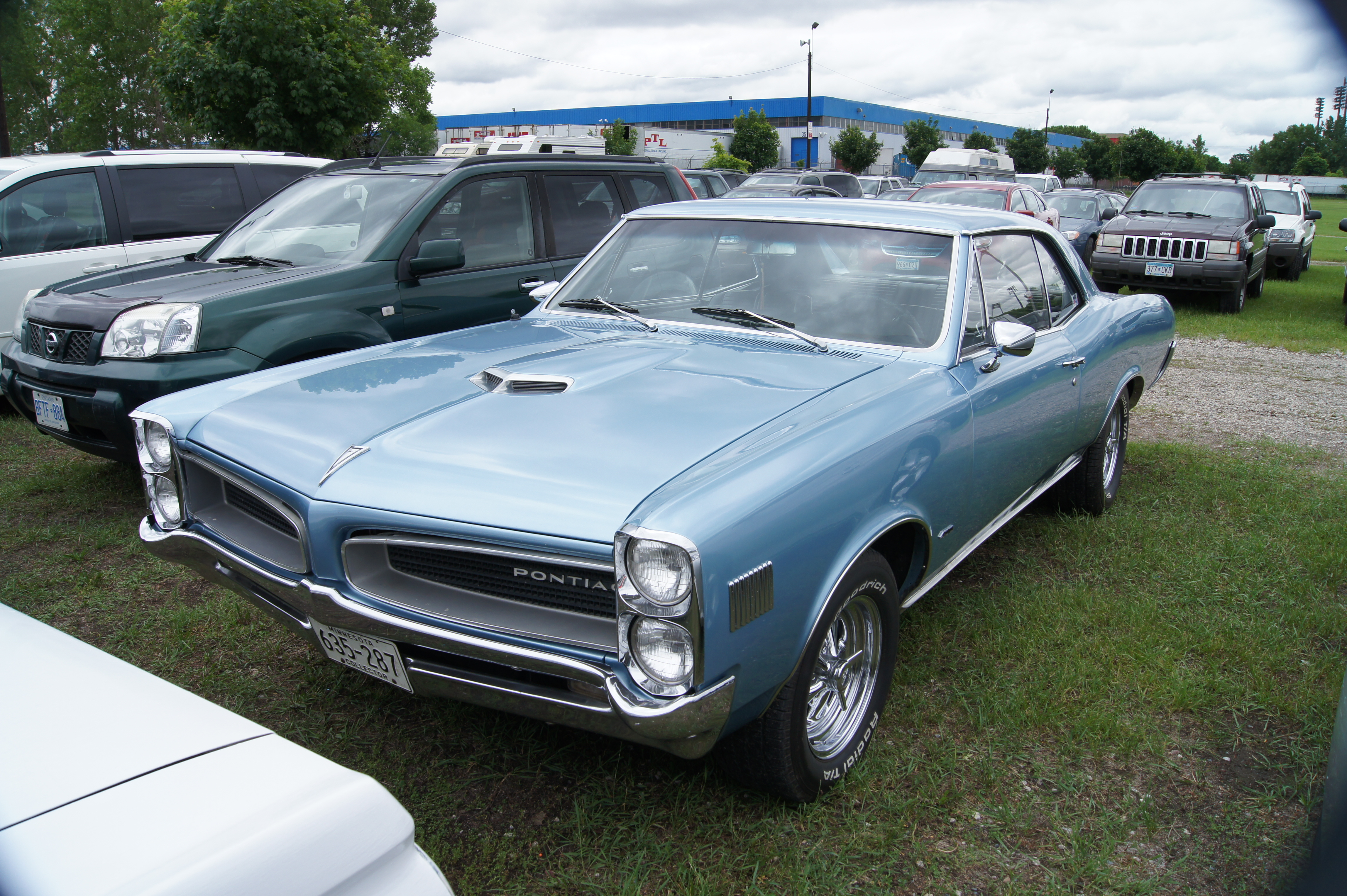 MSRA “BACK TO THE 50′s” 40th ANNIVERSARY June 21-23, 2013 State Fairgrounds St. Paul Minnesota More Car Pictures